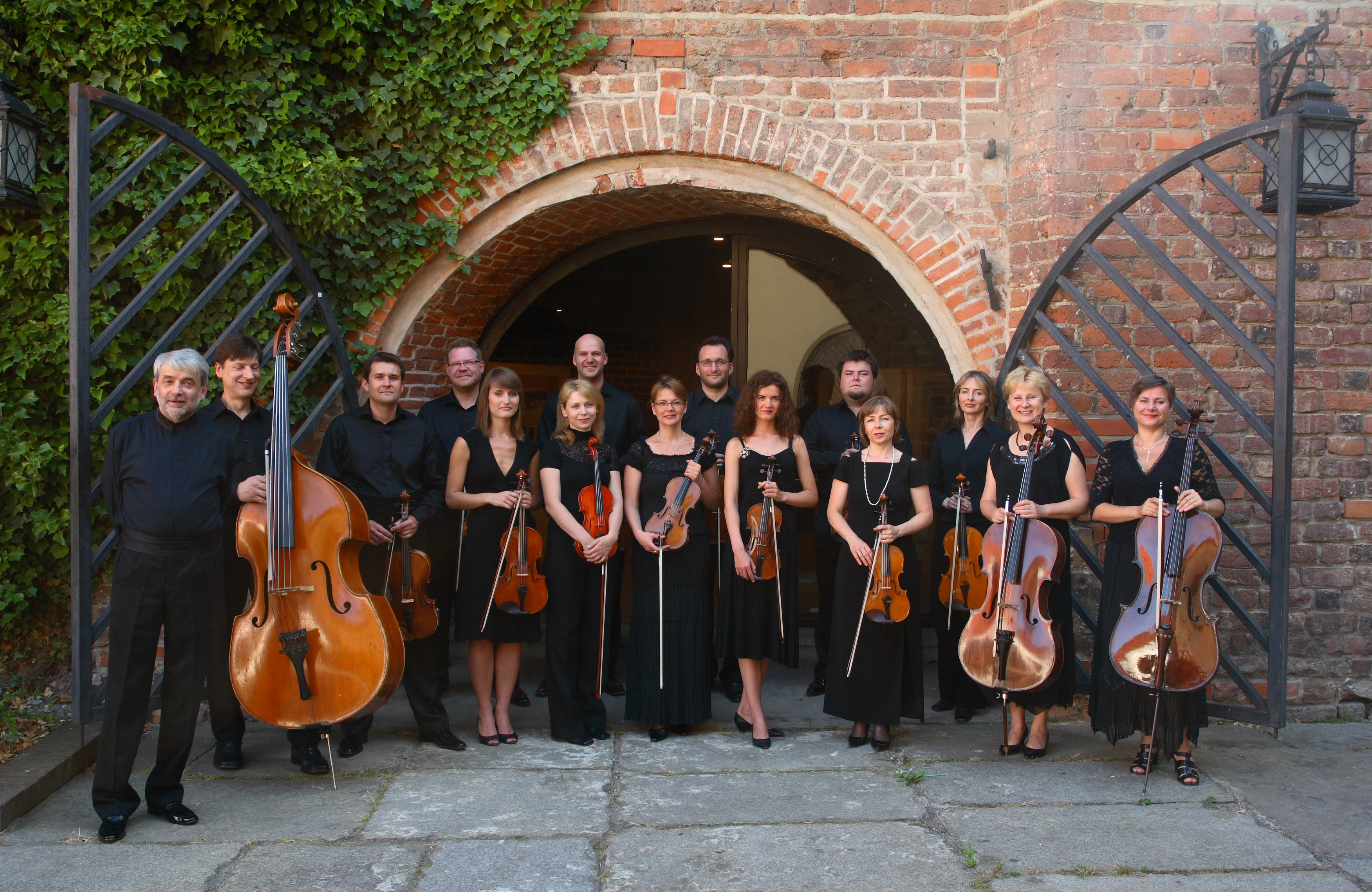 Orkiestra Kameralna Wratislavia, 2010